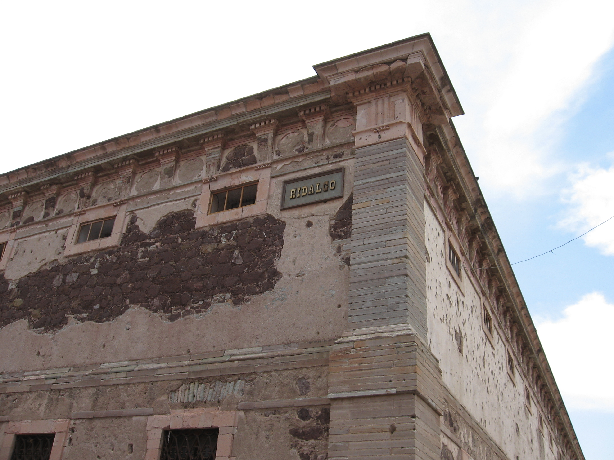 The Hidalgo corner, Alhondiga de Granaditas, Guanajuato